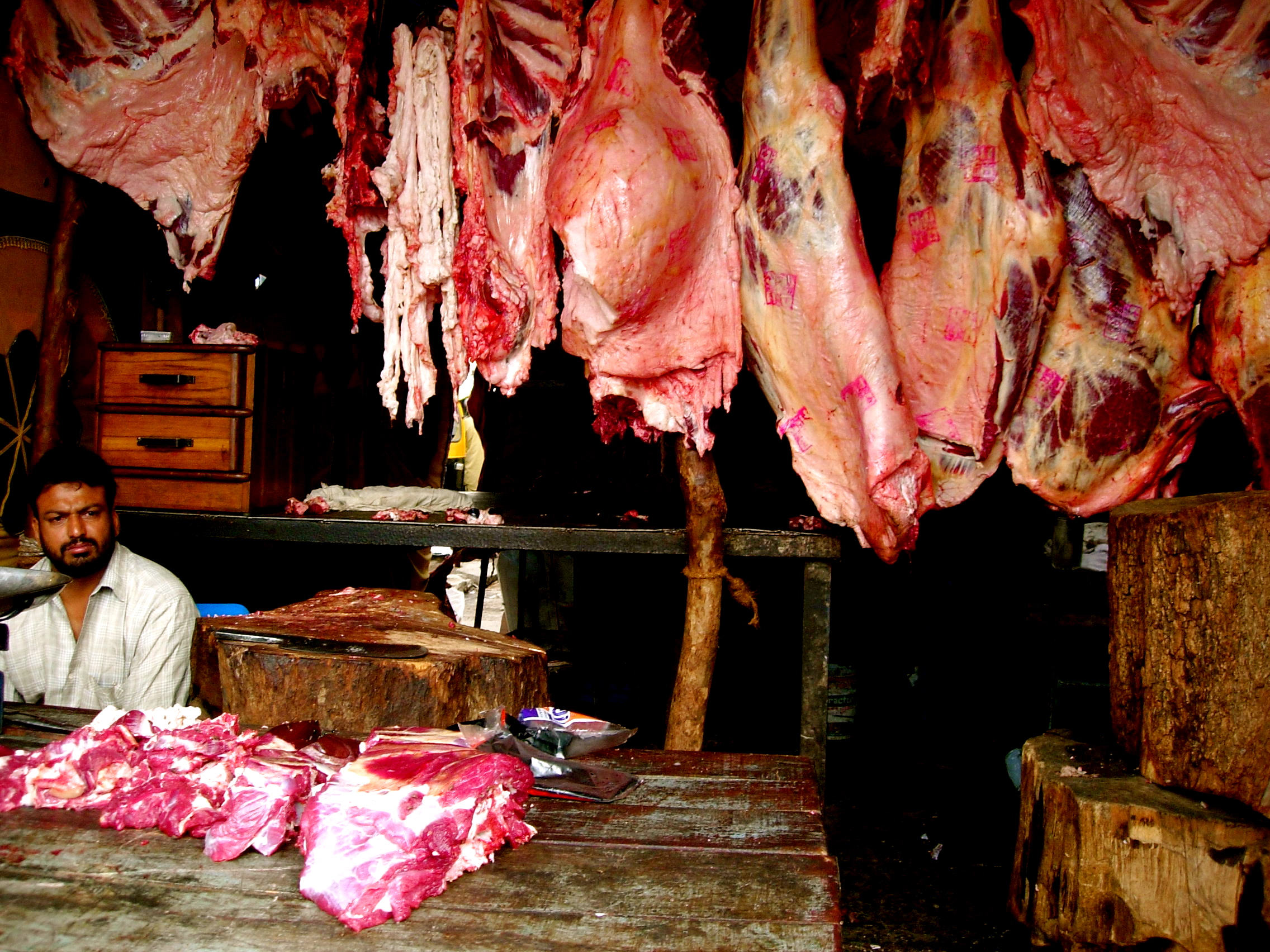 Camel Meat, India